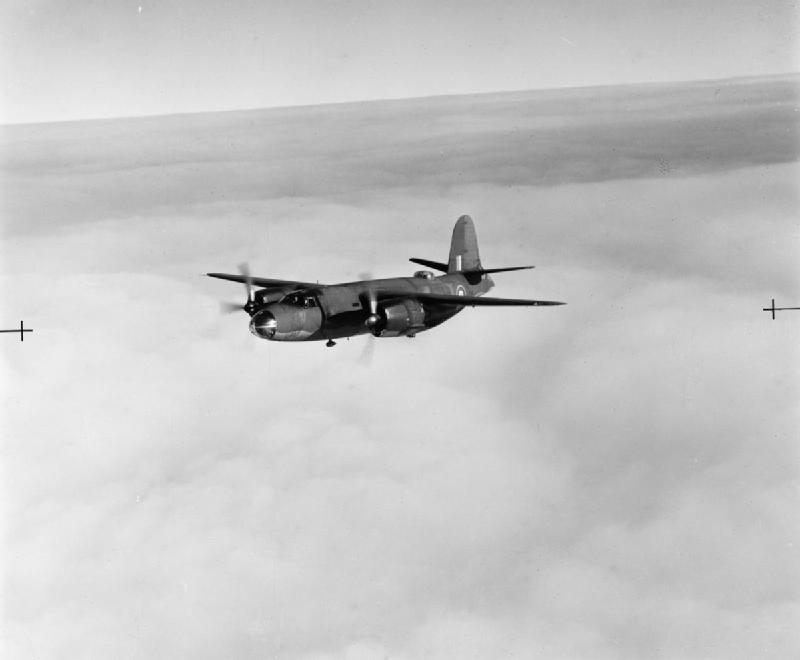 American Aircraft in Royal Air Force Service 1939-1945- Martin Model 179 Marauder. Marauder Mark I, FK111, of the Aeroplane and Armament Experimental Establishment, on a test flight from Boscombe Down, Wiltshire. After a period with No. 301 Ferry Training Unit, this aircraft saw operational service as a torpedo-bomber with No. 14 Squadron RAF in North Africa and Italy.